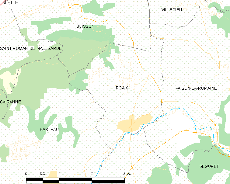 Map of French municipality Roaix